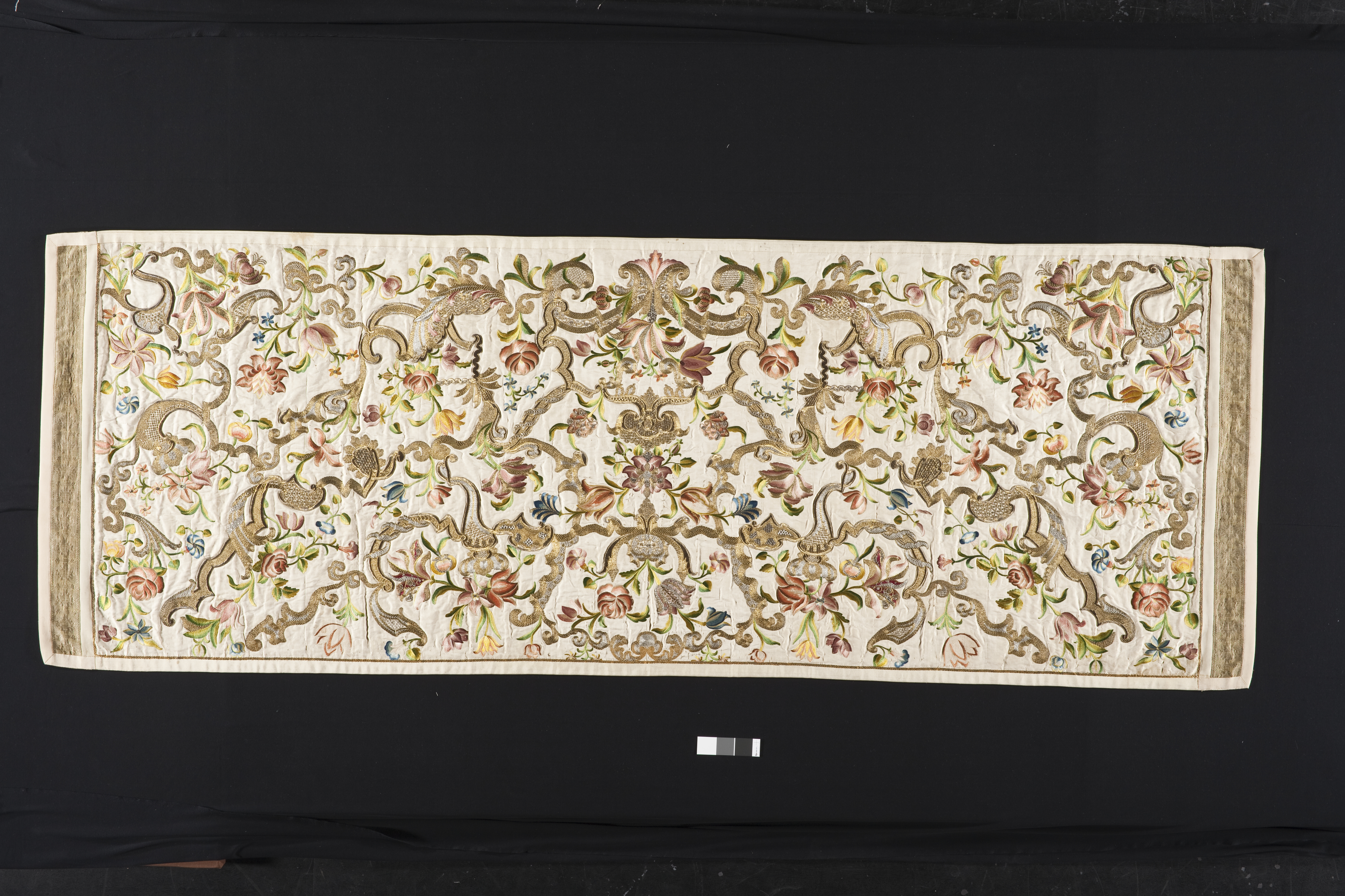 Altar frontal (Antependium}, France or Italy, 1730-1740. Silk satin with silk and metallic-thread embroidery, guipure and gaufrure.